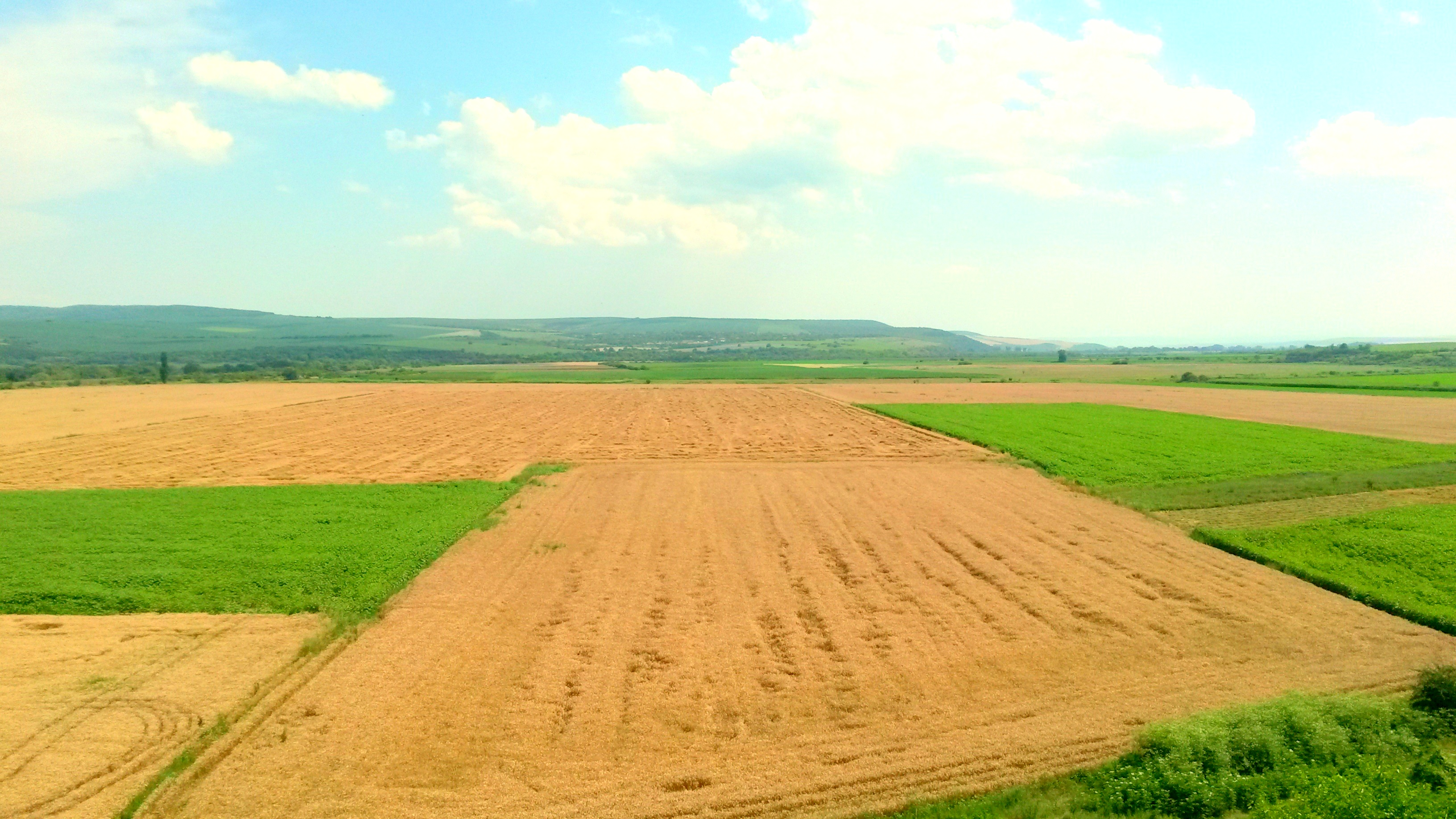 2014-06-24 between Veliko Tarnovo and Rousse.